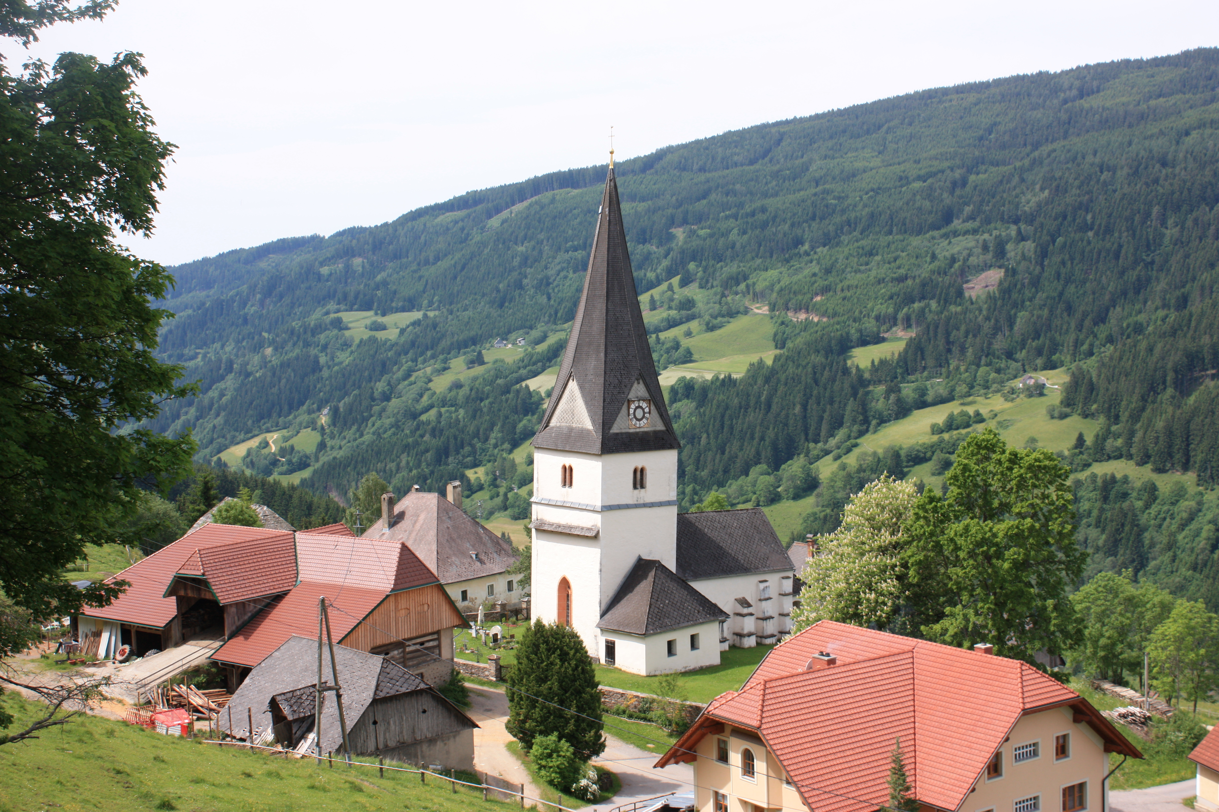 St Martin am Silberberg in the community of Hüttenberg